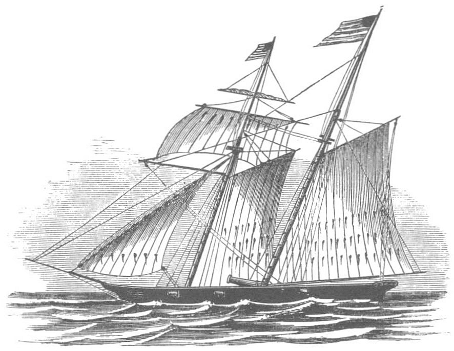 An ethcing of a Baltimore Clipper, a series of schooner rigged privateers that served the United States during the War of 1812.